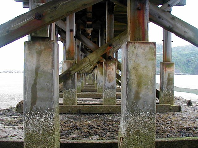 Beneath Barmouth Bridge A view underneath the bridge. Predominately of wooden construction, there was serious concern in the 1980's that the structure was so compromised by marine worm infestation that it would have to be condemned. At that time of minimum investment in railway infrastructure, the estimated cost of repair was seen to be prohibitive and the whole Cambrian Coast line was threatened with closure. Fortunately, a cheaper solution was found and the bridge was saved. In this view the wooden piers can be seen with the concrete reinforcement which saved the structure.